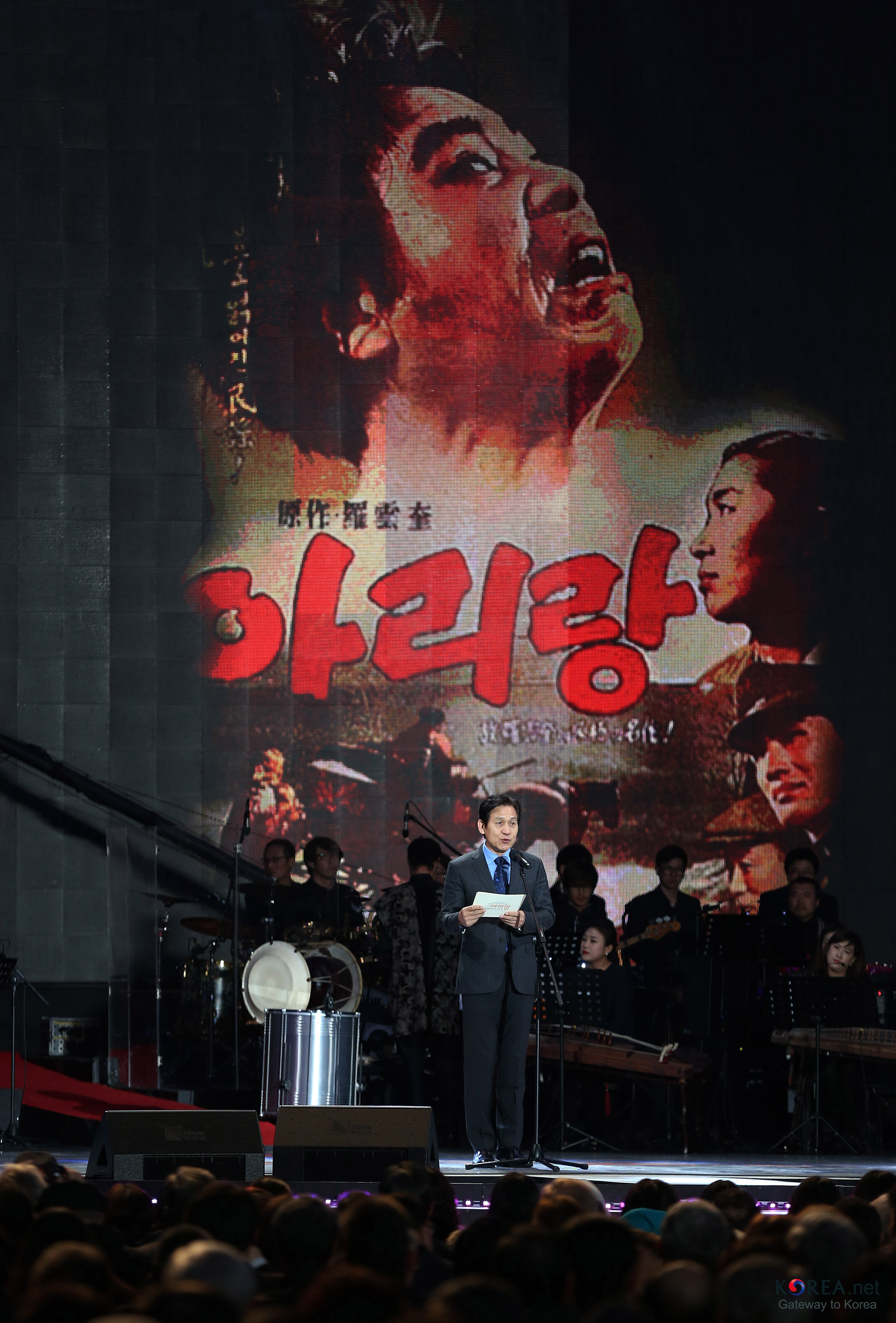 Ariang-themed concert at the Nokjiwon Garden of Cheong Wa Dae Actor Ahn Sung-ki introduces the movie "Arirang" directed by Na Un-gyu in 1926 at the concert. October 27, 2013 Nokjiwon Garden, Cheong Wa Dae, Seoul Related Article Cheong Wa Dae (English) Arirang echoes across Cheong Wa Dae -English- Arirang echoes across Cheong Wa Dae -Deutsch- Arirang erklingt im Cheong Wa Dae -español- Arirang resuena en Cheong Wa Dae -中文- 在青瓦台回荡起阿里郎的旋律 -Việt- Arirang được biểu diễn tại Nhà Xanh -日本語- 大統領府に響き渡った「アリラン」 -française- Arirang résonne à Cheong Wa Dae -русский – Чхонвадэ наполняется звуками Ариран -Arabic- أصوات أريرانج تتردد في البيت الأزرق Ministry of Culture, Sports and Tourism Korean Culture and Information Service ( Jeon Han 문화융성의 우리 맛, 우리 멋 아리랑공연 영화배우 안성기가 27일 청와대 녹지원에서 열린 문화융성의 우리 맛, 우리 멋 ‘아리랑공연’에서 나운규의 영화 ‘아리랑’을 소개하고 있다. 2013.10.27. 녹지원, 청와대 문화체육관광부 해외문화홍보원 코리아넷( 전한